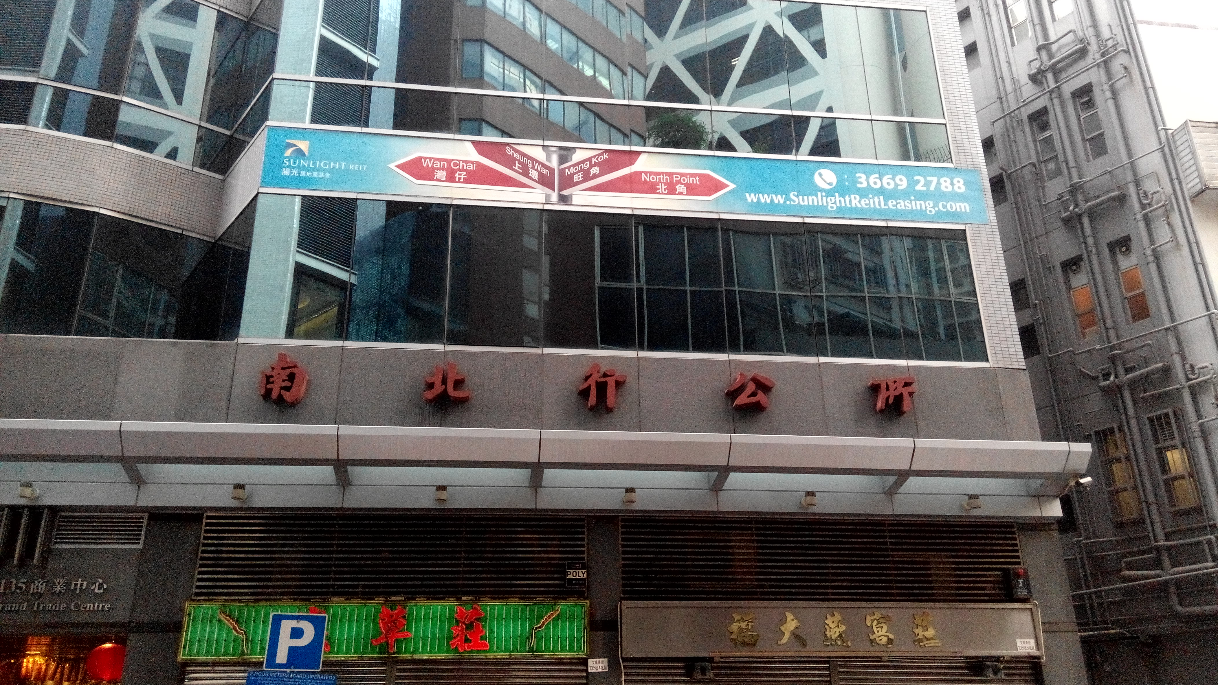 Nam Pak Hong Union